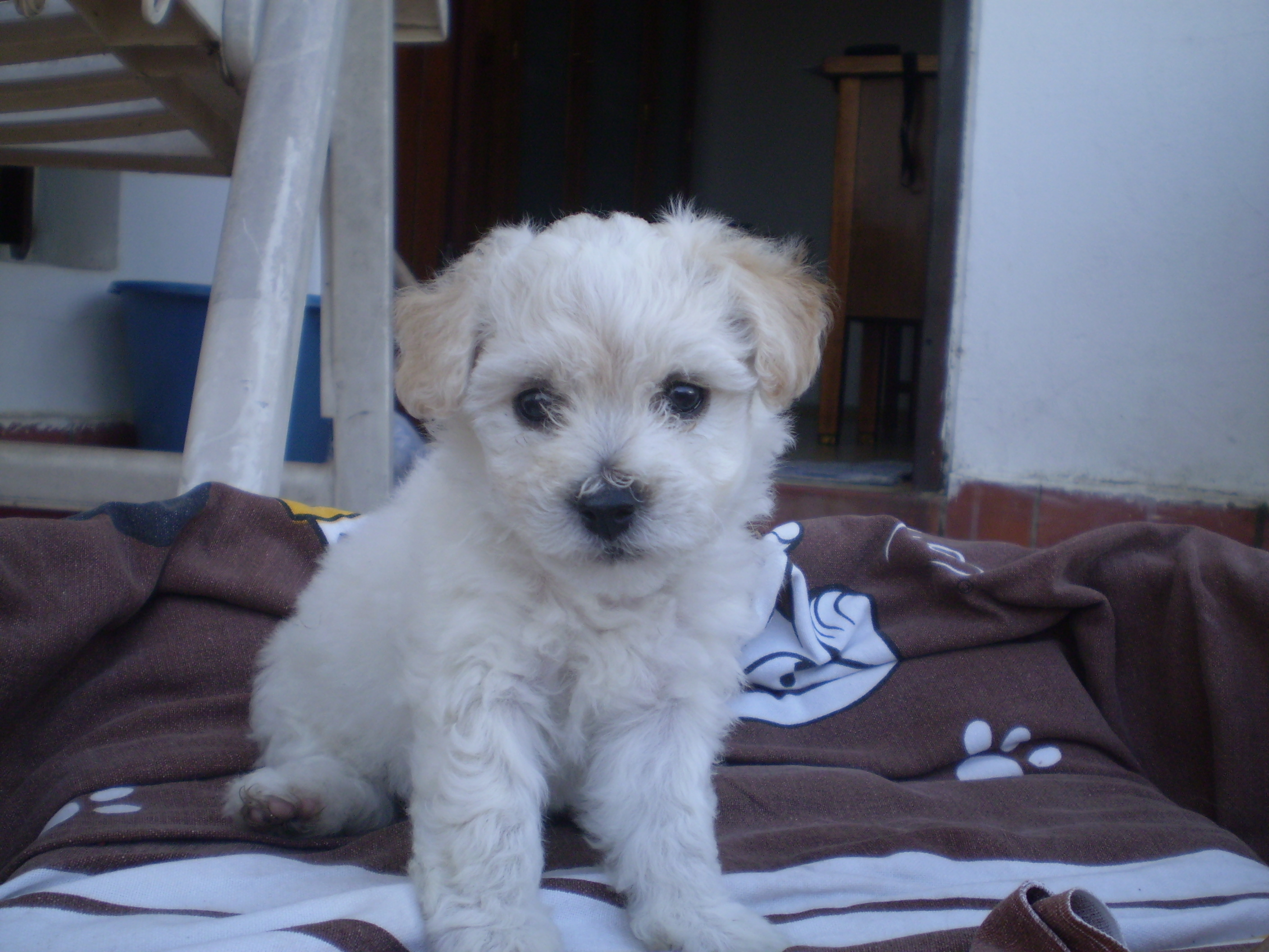 Bichon frise dog